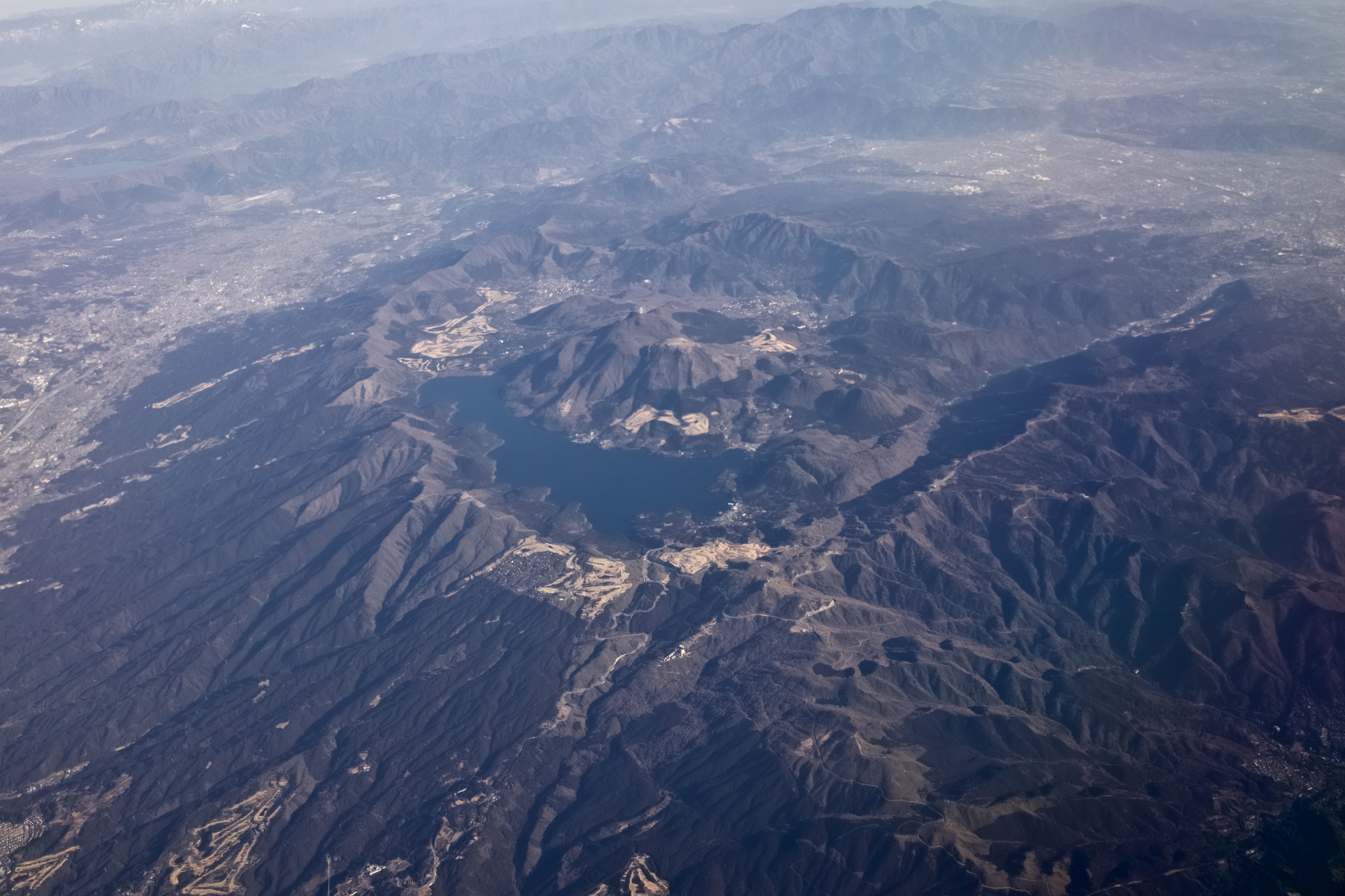 Hakone Volcano as seen from the SW.